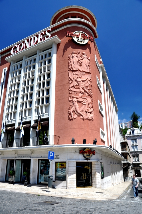 Hard Rock Cafe - Lisboa